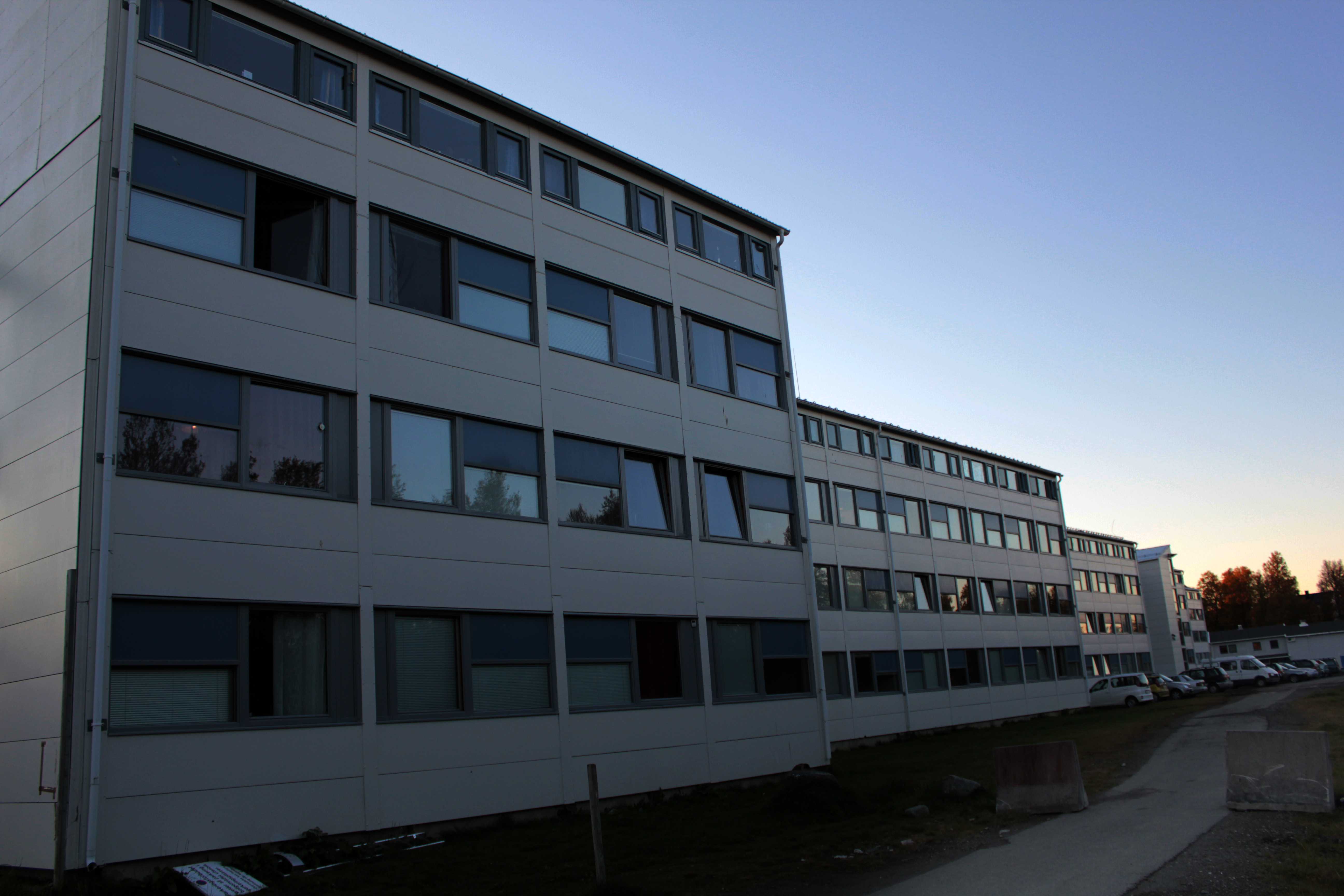 Prestvannet student housing, Tromsø Norway